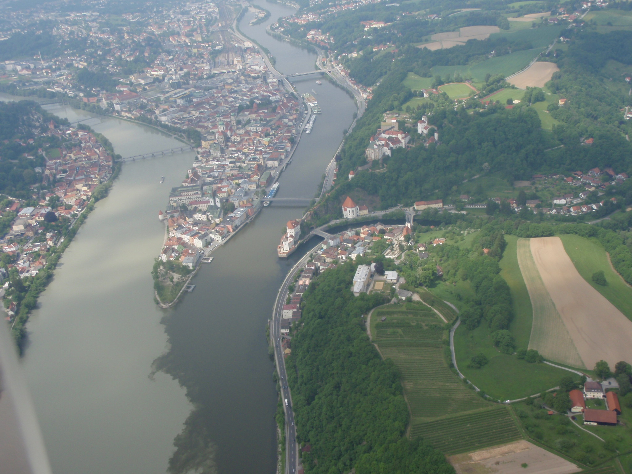 Flying with a small 2p airplane over Passau - rivers: bright=Inn dark=Danube